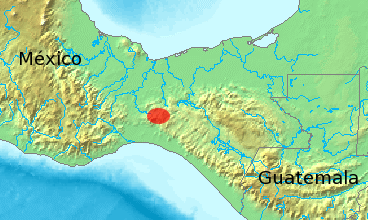 Range of Abronia bogerti (Abronia bogerti)